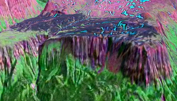 Western end of the Mess Lake Lava Field exposing columnar basalts of the Mount Edziza volcanic complex.